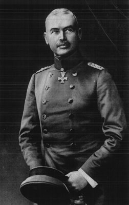 "GEN. LIMAN VON SANDERS PASHA, Commander in Chief of the Ottoman Army."